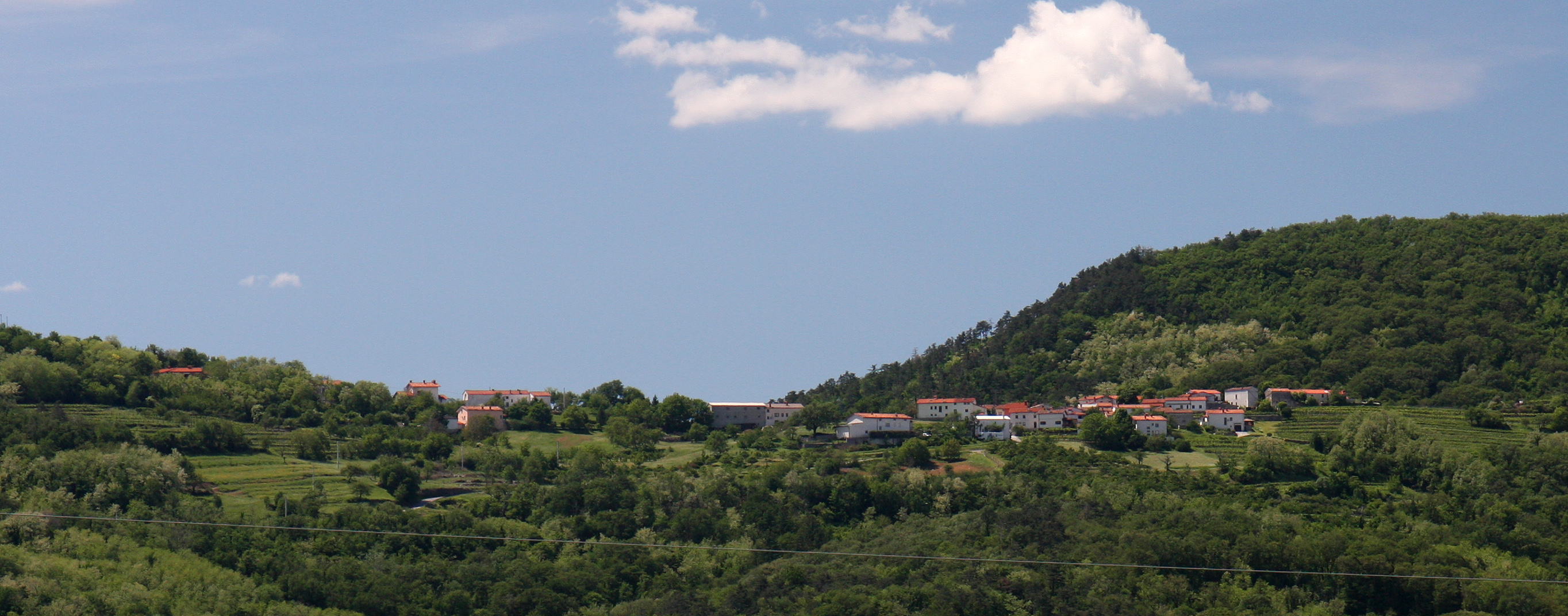 Northern edge of the village Vrtovče in Ajdovščina Municipality (W Slovenia), photographed from Plače.